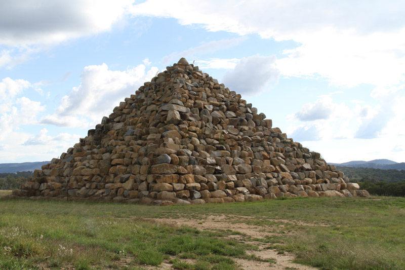 The Ballandean Pyramid April 2010